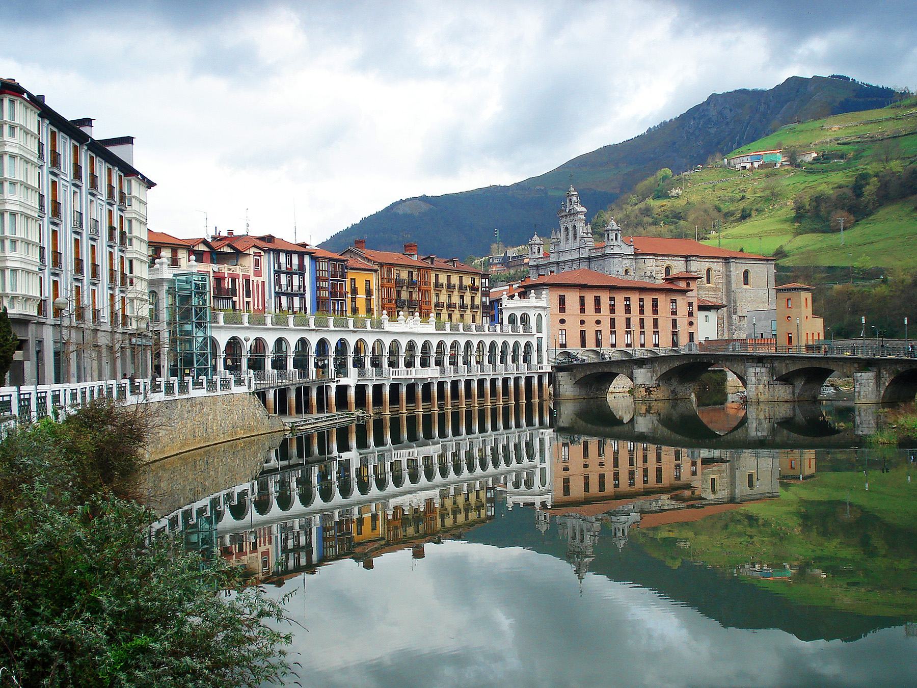 Tolosa. Gipuzkoa, Basque Country.